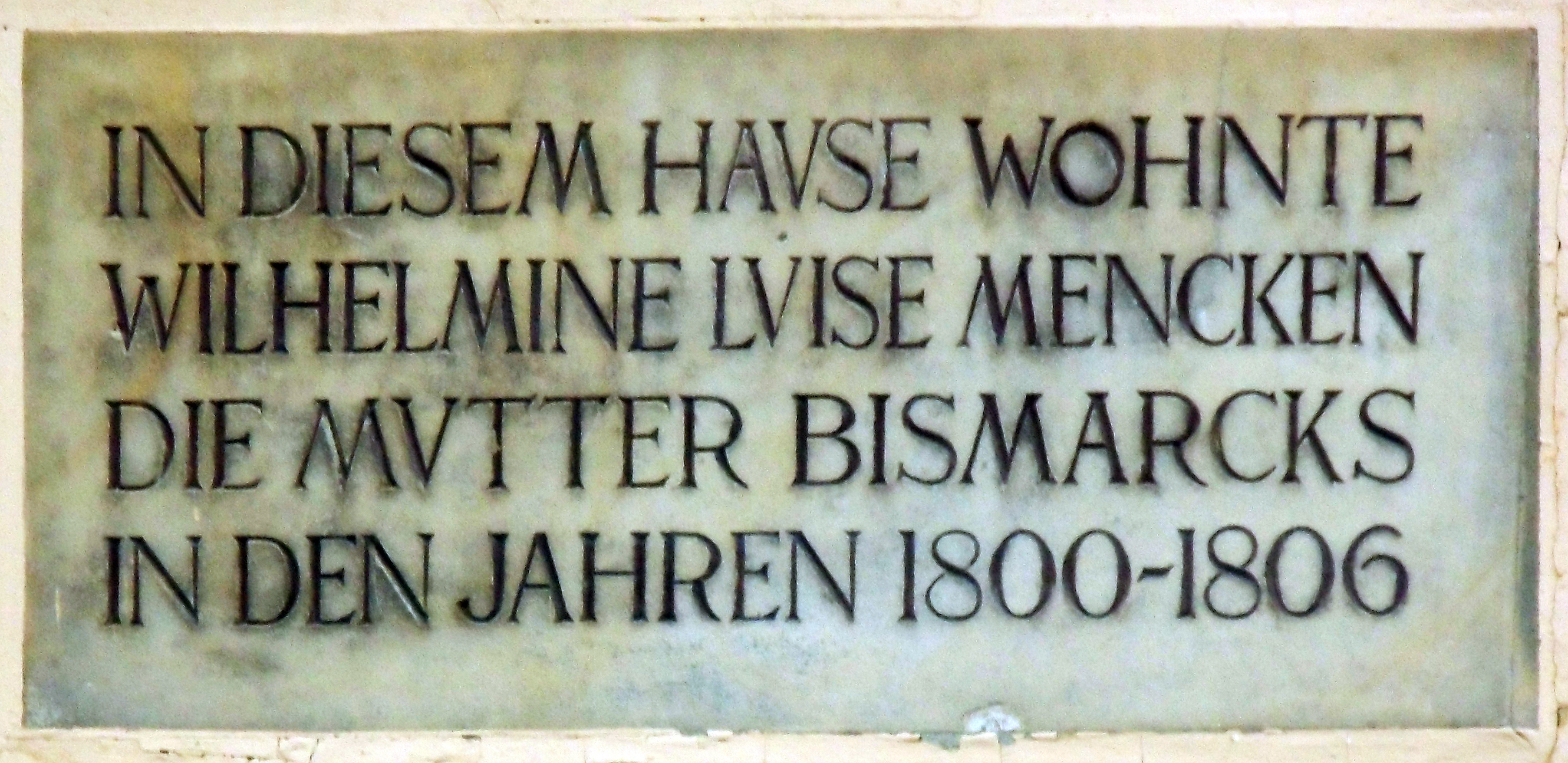 Memorial plaque, Wilhelmine Luise Mencken, Neukladower Allee 12, Berlin-Kladow, Germany